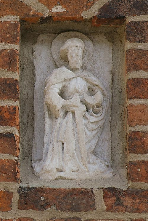 Sculpture St. Andreas, St. Peter church, Malmo, Sweden, about 1460.